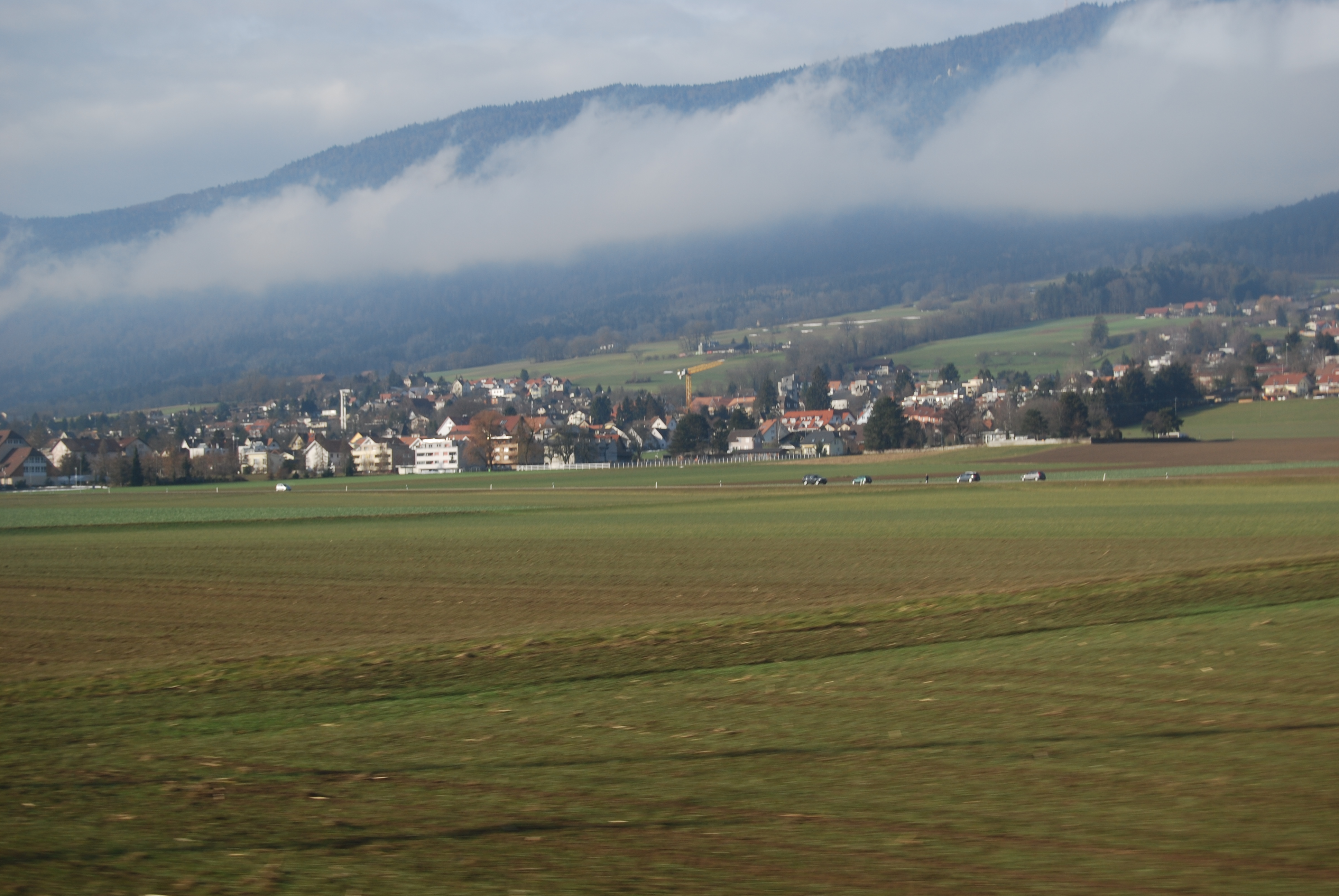 Bettlach, canton of Solothurn, Switzerland